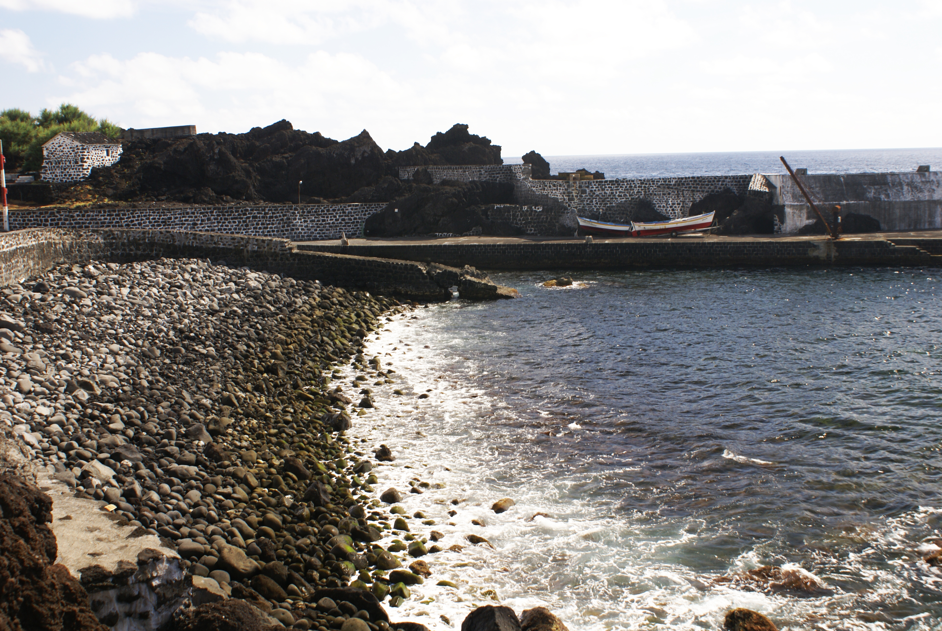 The Porto do Calhau, partial vista of the fishing port, municipality of Madalena do Pico, Pico (Azores), Portugal